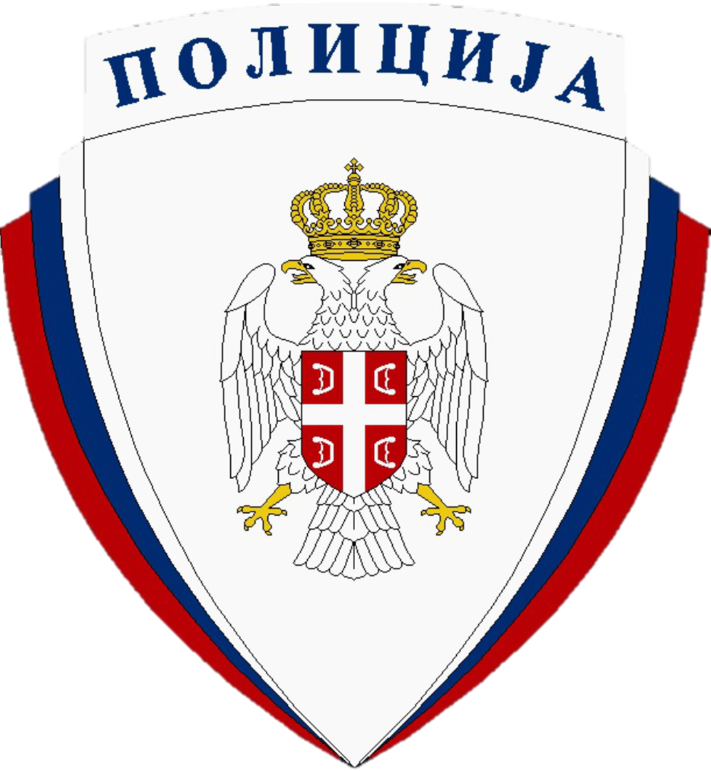 Emblem of the Police of Republika Srpska from 1992 till 2008.